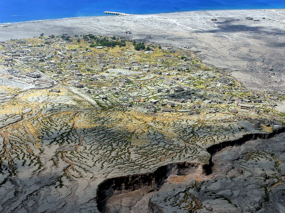 The abandoned and mostly destroyed Plymouth, Montserrat, captured out of a helicopter.